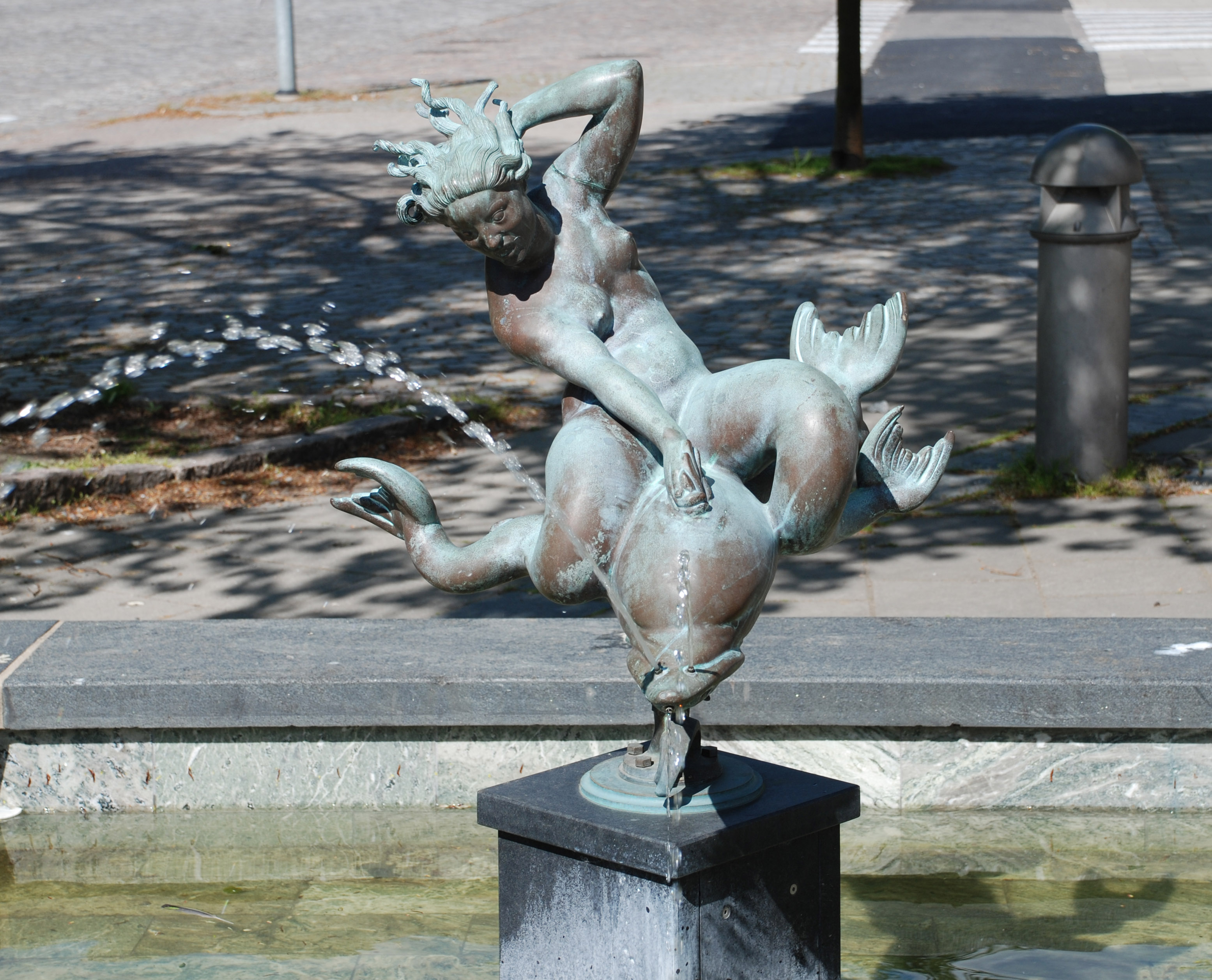 Swedish artist Carl Milles (1875-1955) "Solglitter" in Trelleborg, Sweden. Photo by the uploader.